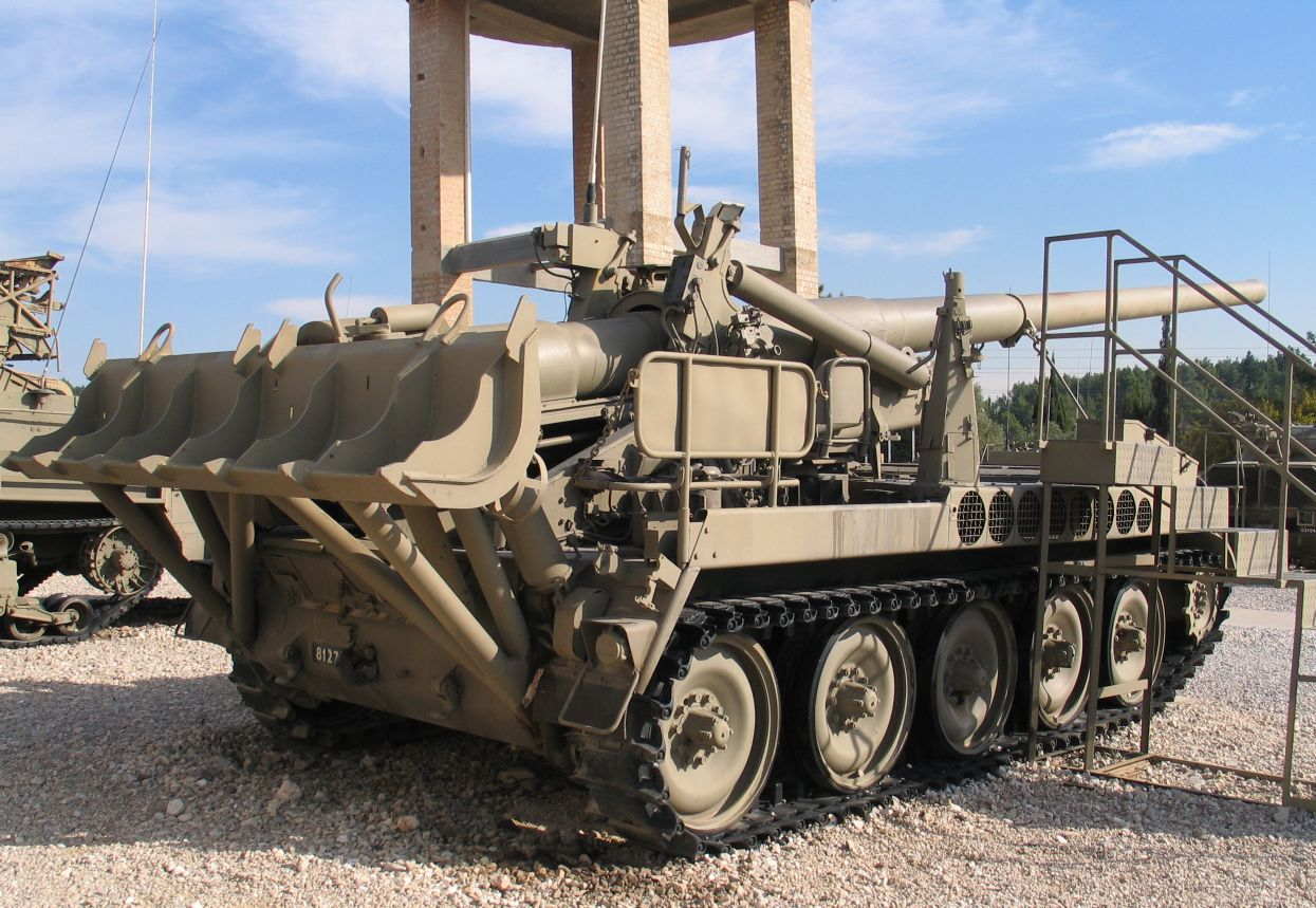 Description: M107 175 mm sp gun in Yad la-Shiryon Museum, Israel. 2005. Source: Photo by me, User:Bukvoed.